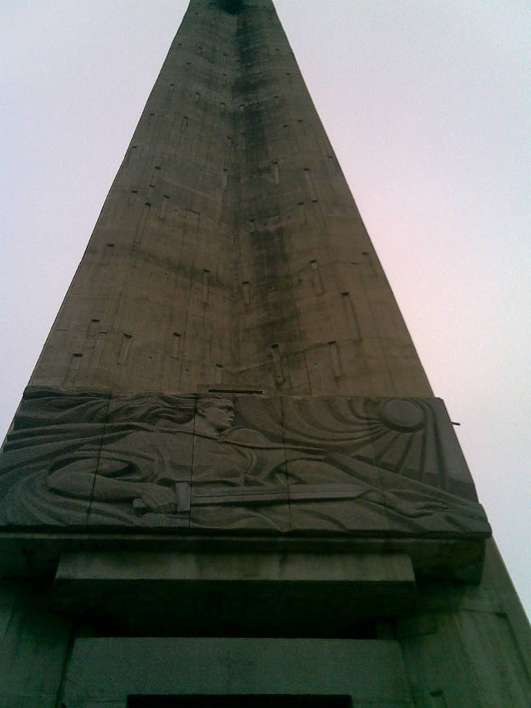 "Balova shuma" monument